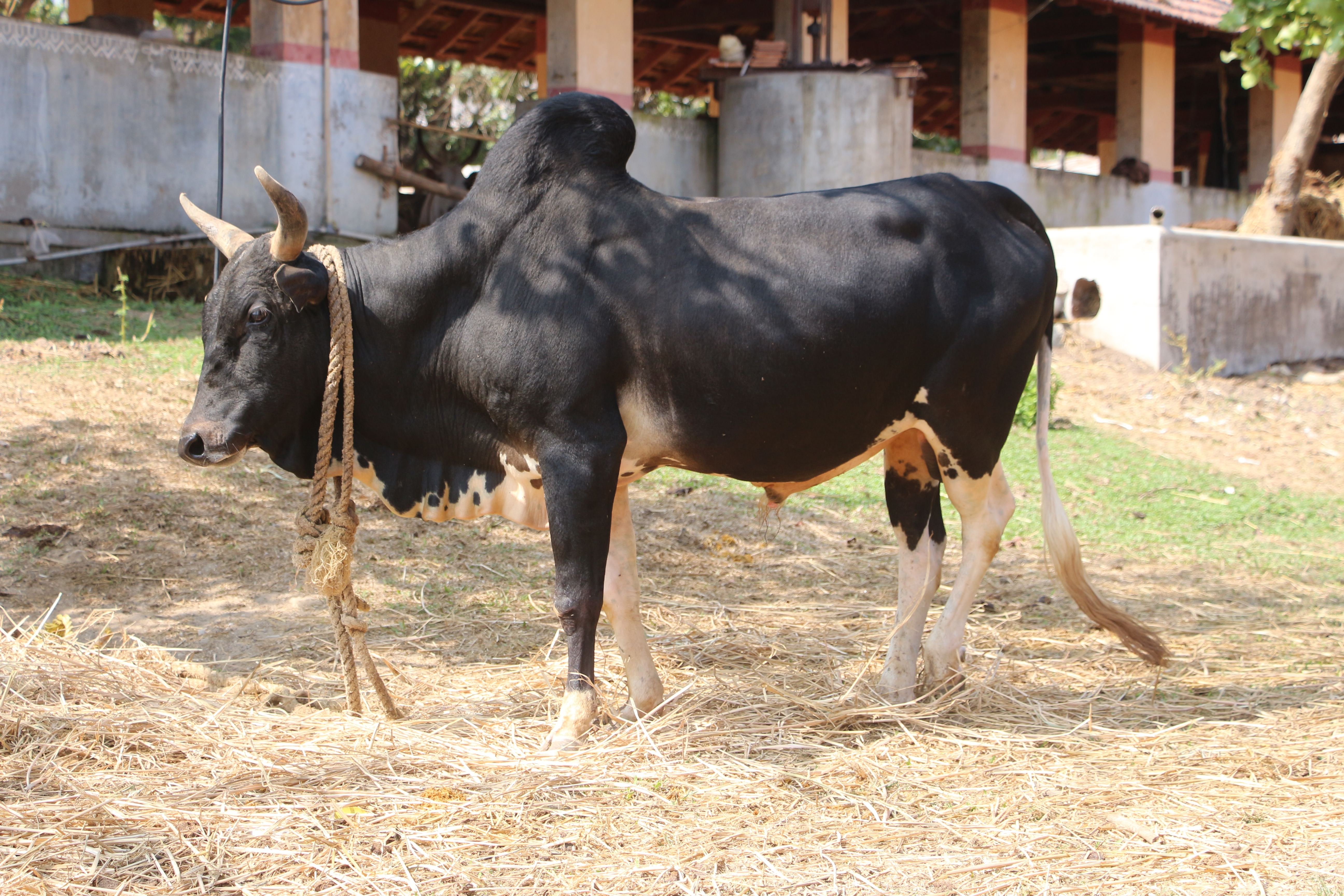 Indian cow breed Amblacheriಕನ್ನಡ: ಭಾರತೀಯ ಗೋತಳಿ ಅಂಬ್ಲಾಚೆರಿ